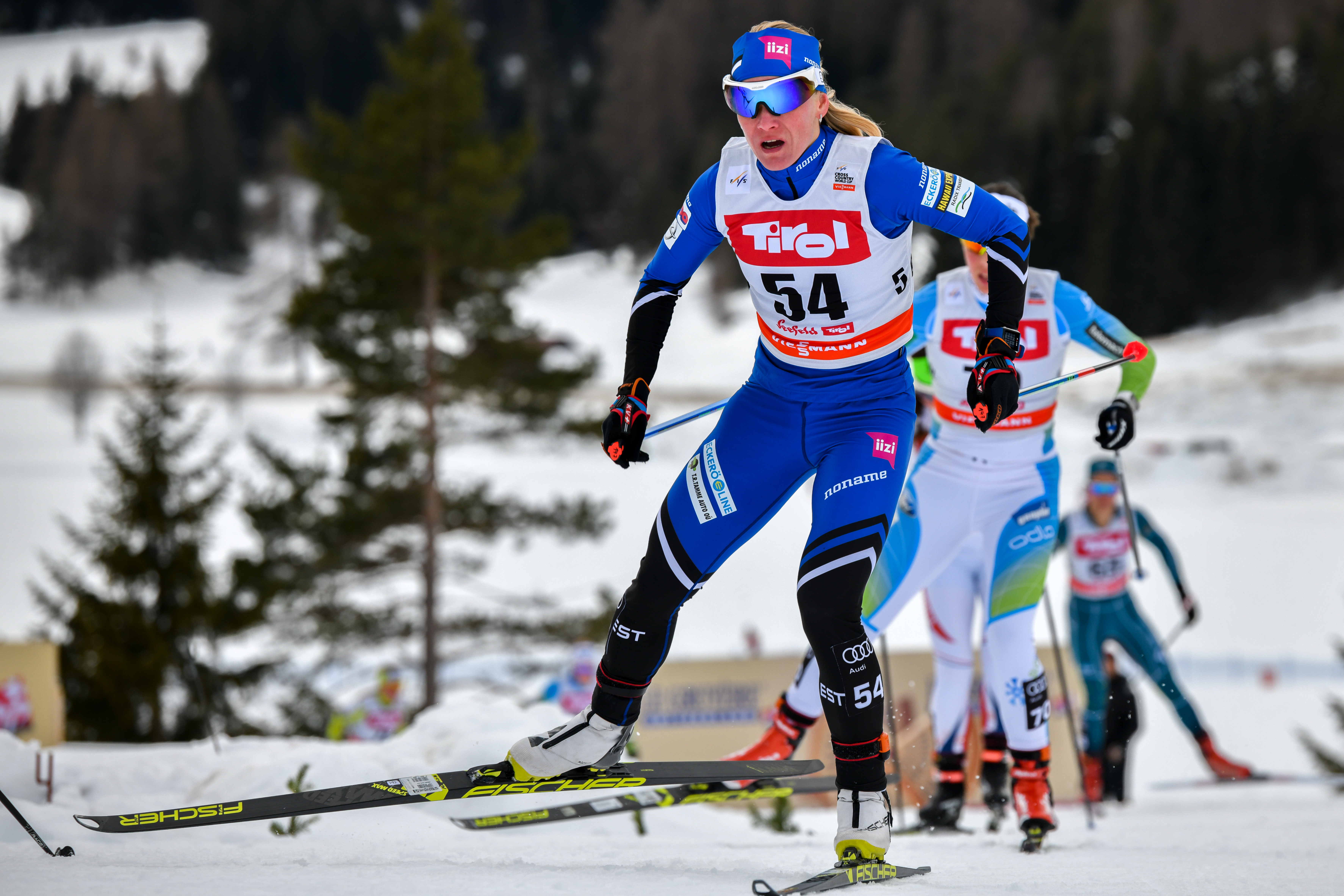 Seefeld-Triple 2018, third day January 28th. Picture shows MANNIMA Tatjana (EST).